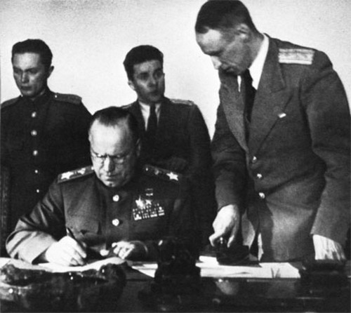 Soviet Marshal Georgy Zhukov signing the German Instrument of Surrender at the Soviet headquarters in Karlshorst, Berlin.